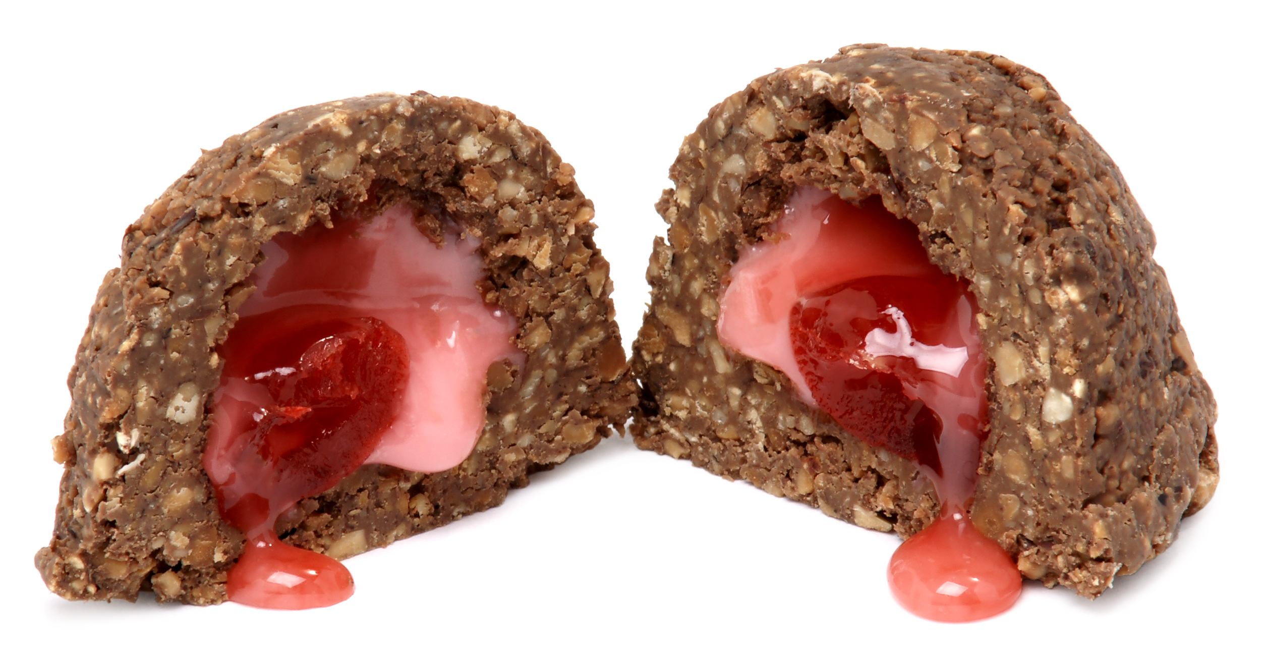 A Cherry Cocktail confection split in half. A product of the Idaho Candy Company.